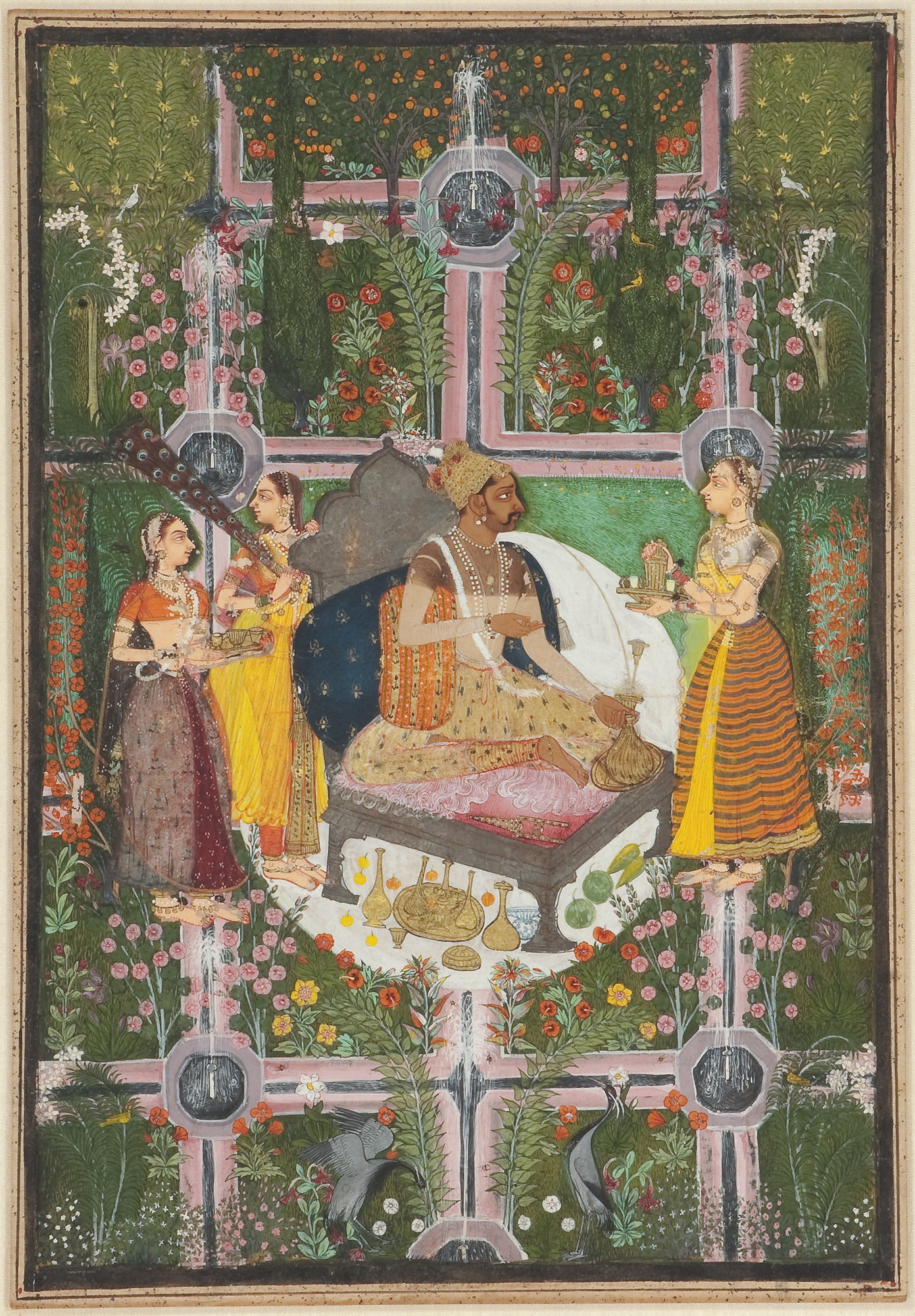 Attributed to Hada Master. Rao Jagat Singh of Kota at ease in a garden, Kotah, 1660, Private Collection